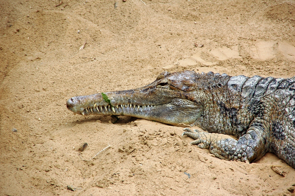 Tomistoma schlegelii, Zoological Garden Berlin, Germany